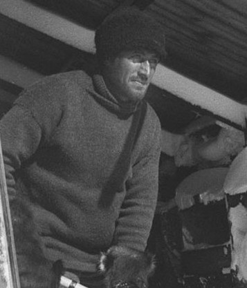 Mertz clears snow from the verandah, Winter Quarters, Adelie Land